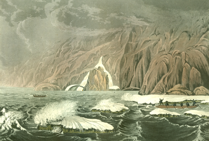 Depicts a dangerous doubling of Cape Barrow during Franklin's first arctic expedition.